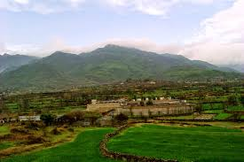 Huge mountains in front of Sawawai to north, named Tangai